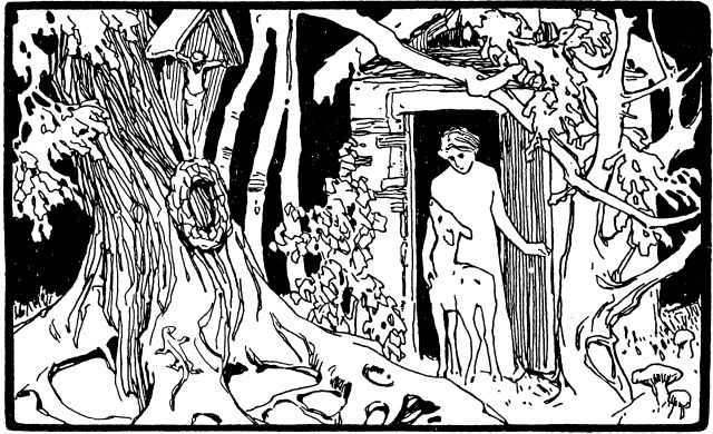 Illustration by Otto Ubbelohde to the fairy tale Brother and Sister